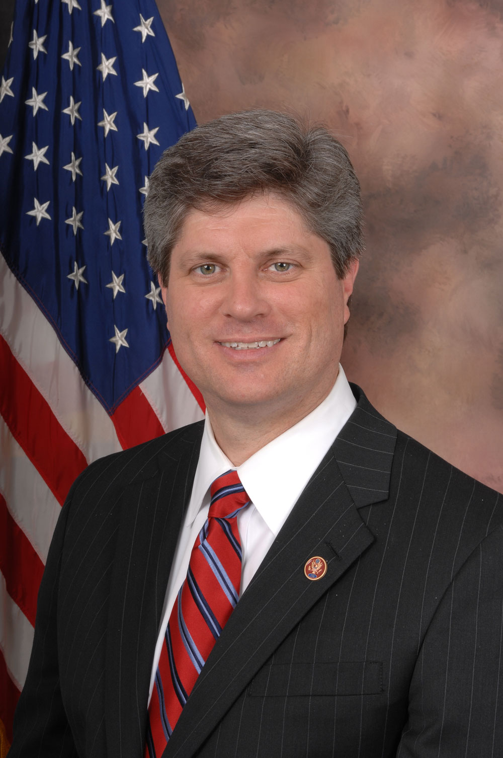 Jeff Fortenberry, member of the United States House of Representatives.